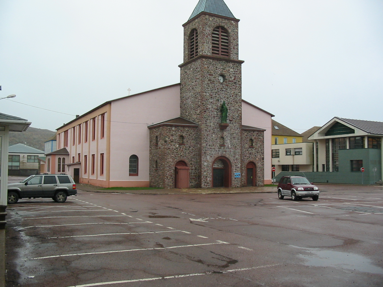 The Cathredal in Saint Pierre; Monday May 12, 2008.